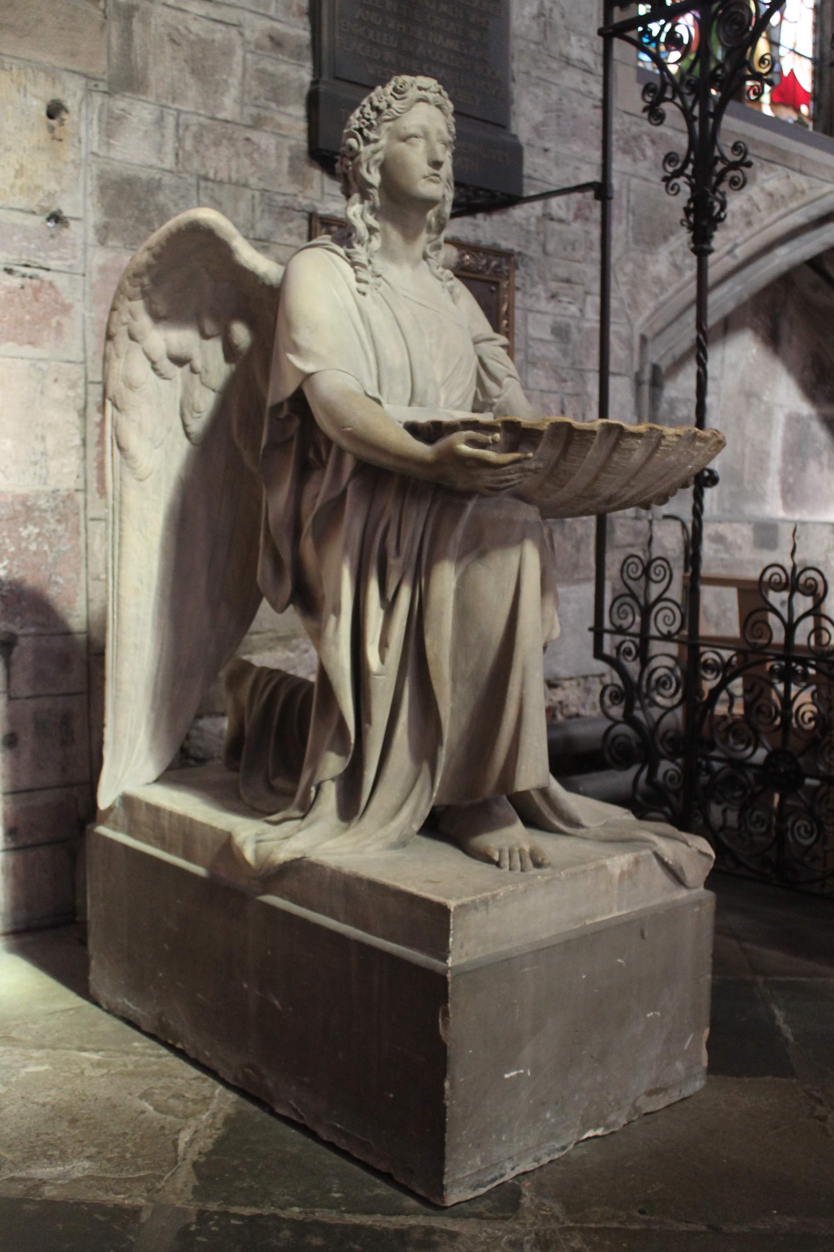 John Birnie Rhind's replica of Bertel Thorvaldsen's angel font in St Giles' Cathedral, Edinburgh